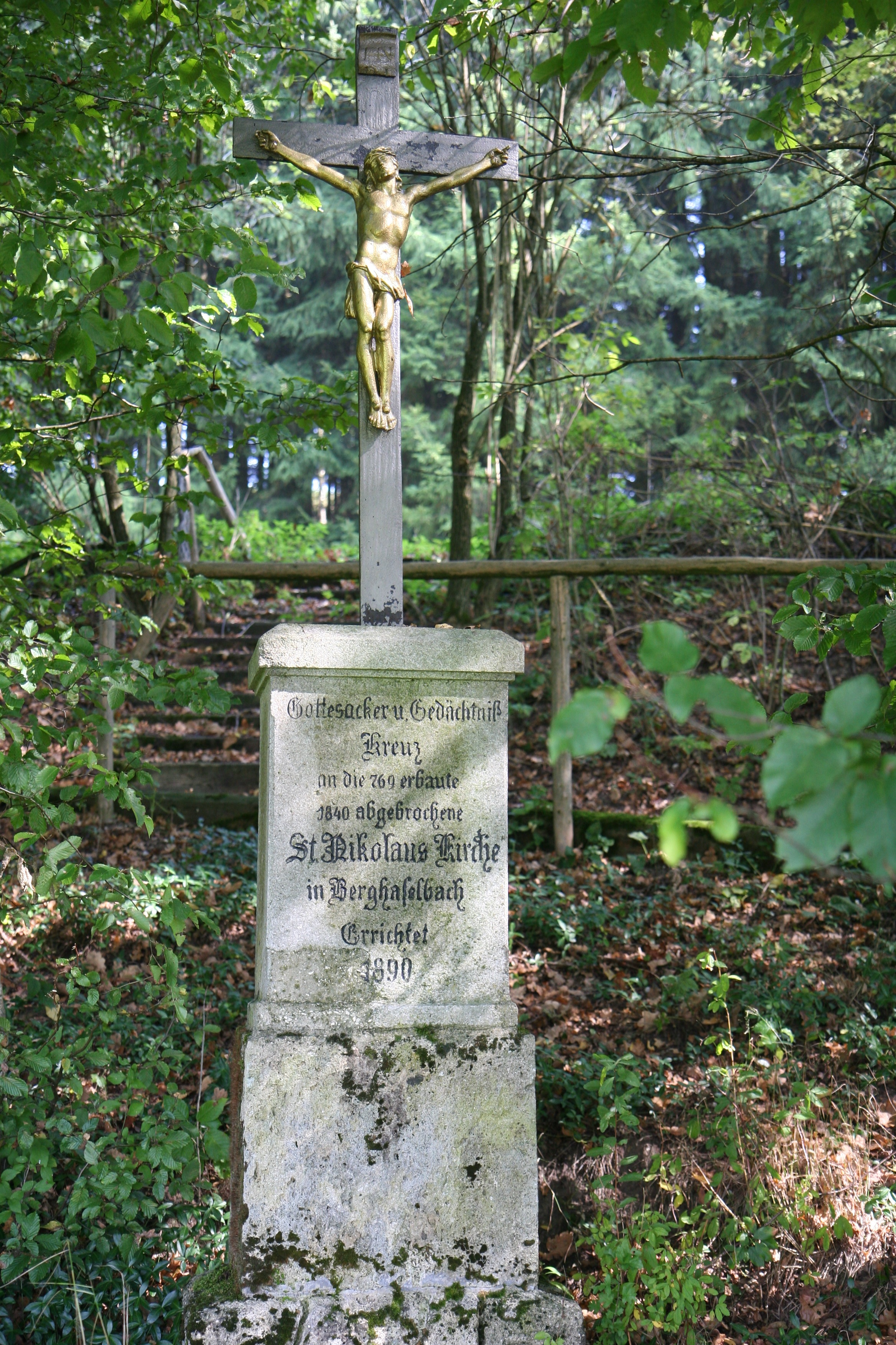 crucifix at the Klausenberg near Berghaselbach